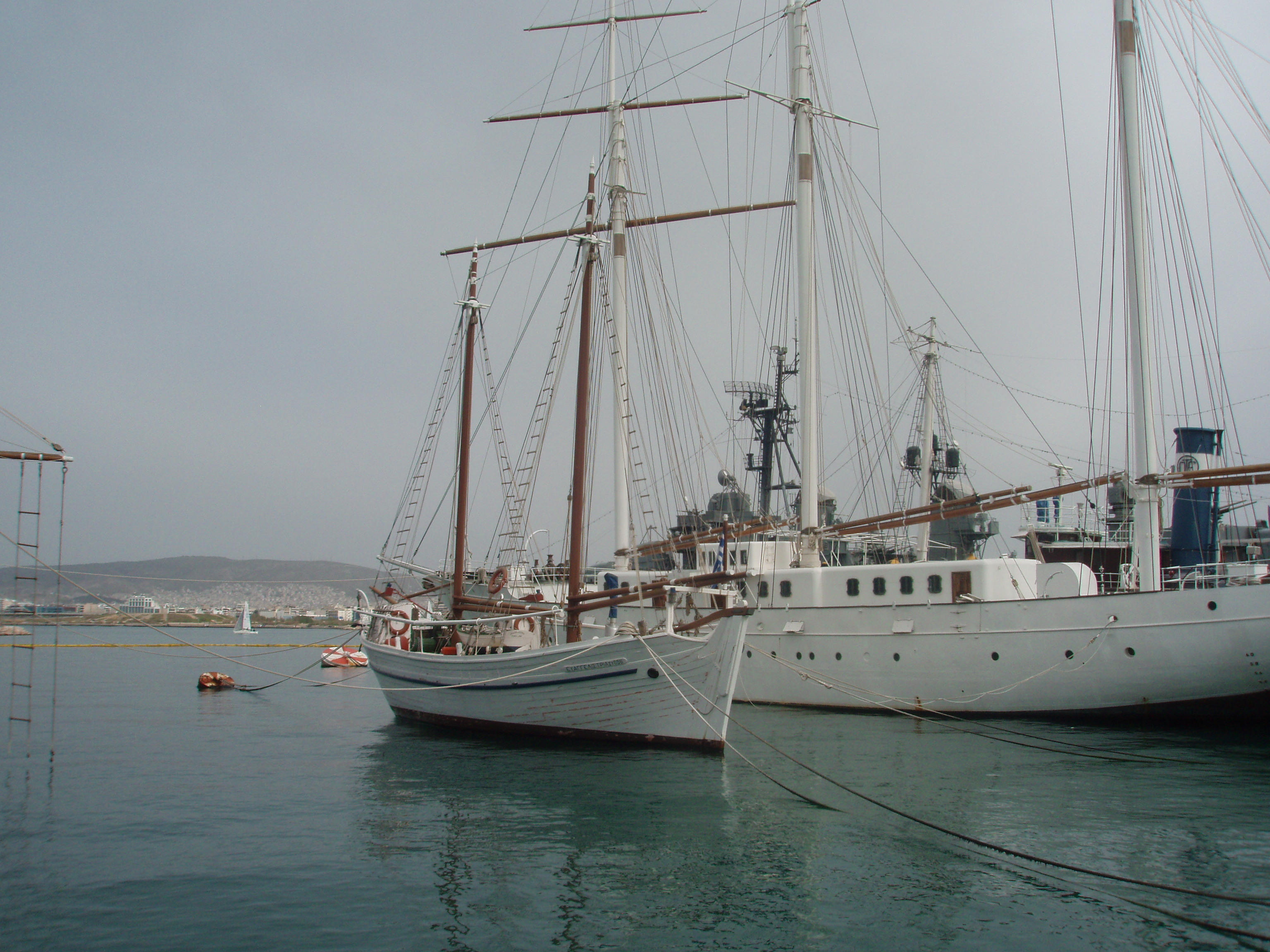 The traditional sailing ship ("perama") Evangelistria, built in Syros in 1939, lying in anchor alongside the sailing ship Eugenios Eugenides at the Maritime Tradition Park in Faliron, Greece